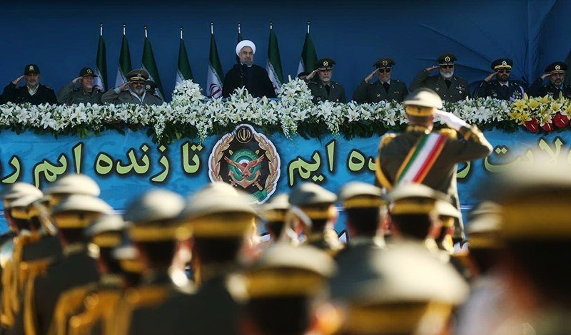 Iranian National Day of Armed Forces